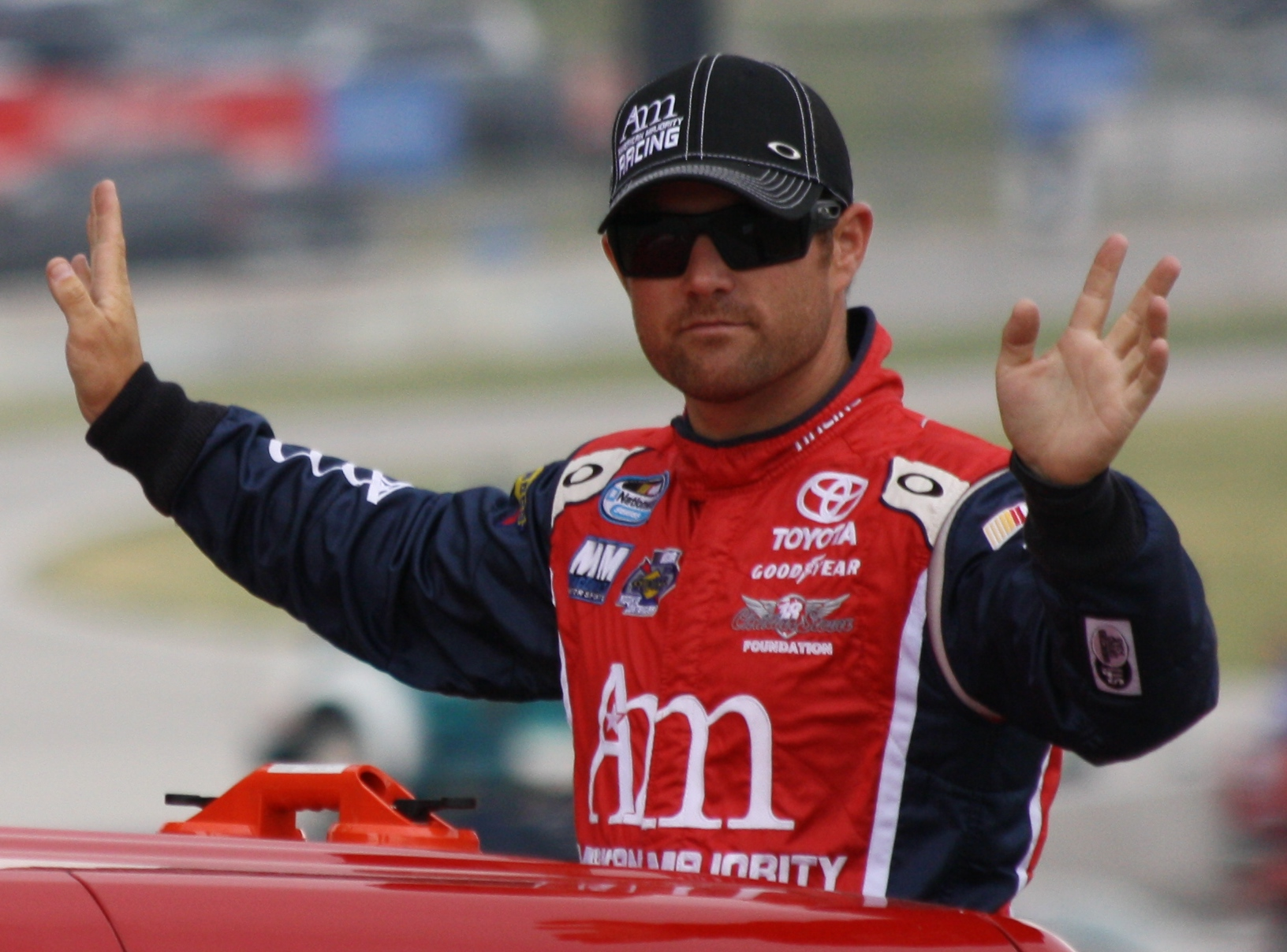 NASCAR driver Jason Bowles during driver's introductions at the 2012 Sargento 200 Nationwide Series race at Road America.